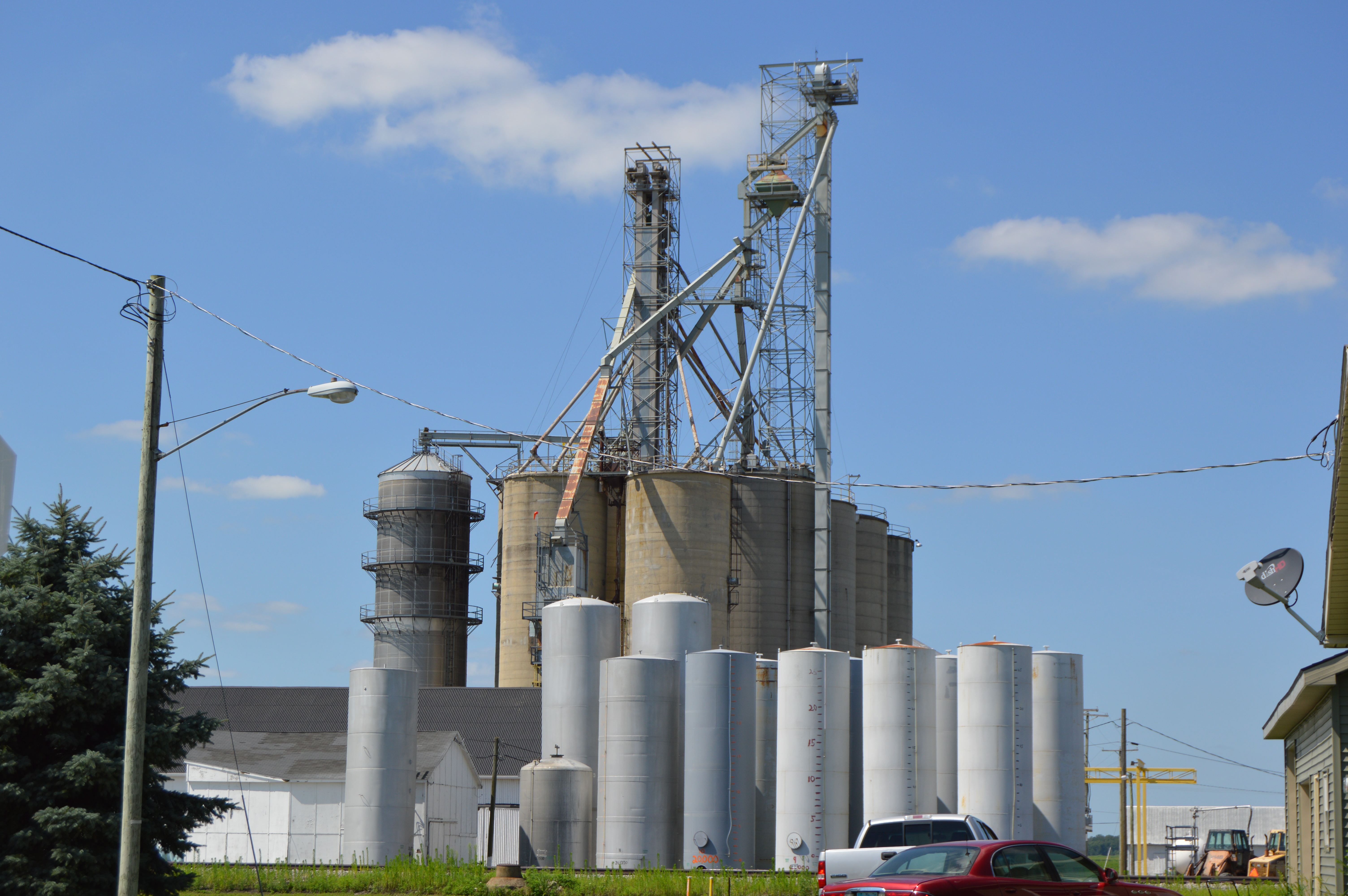 View from the south of the community grain elevator in Elgin, Ohio, United States, located along Maple Street (State Route 81.